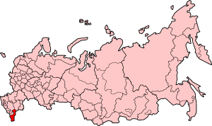 Dagestan Republic on Russia map (as of 12/1/5)